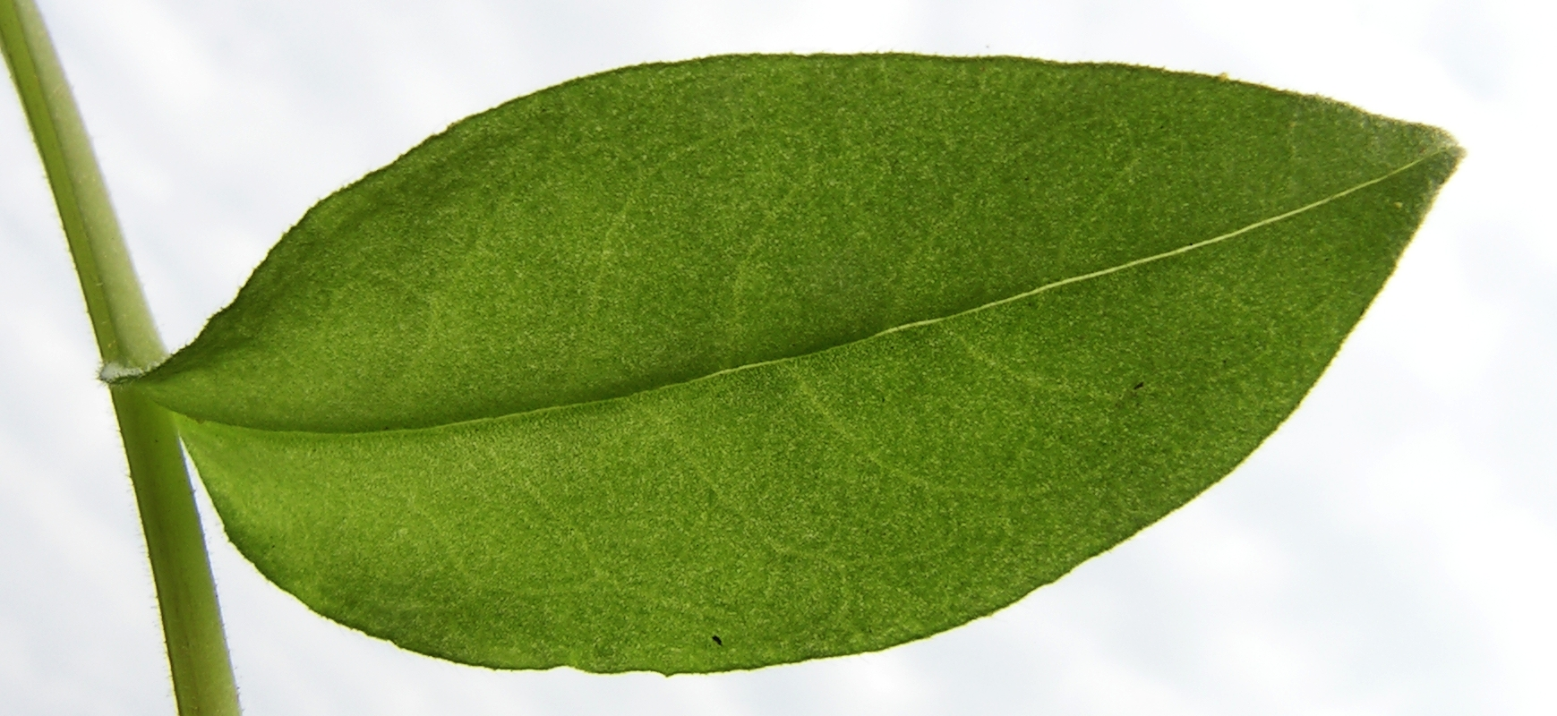 Pulmonaria obscura (family Boraginaceae). Moscow region, Russia.